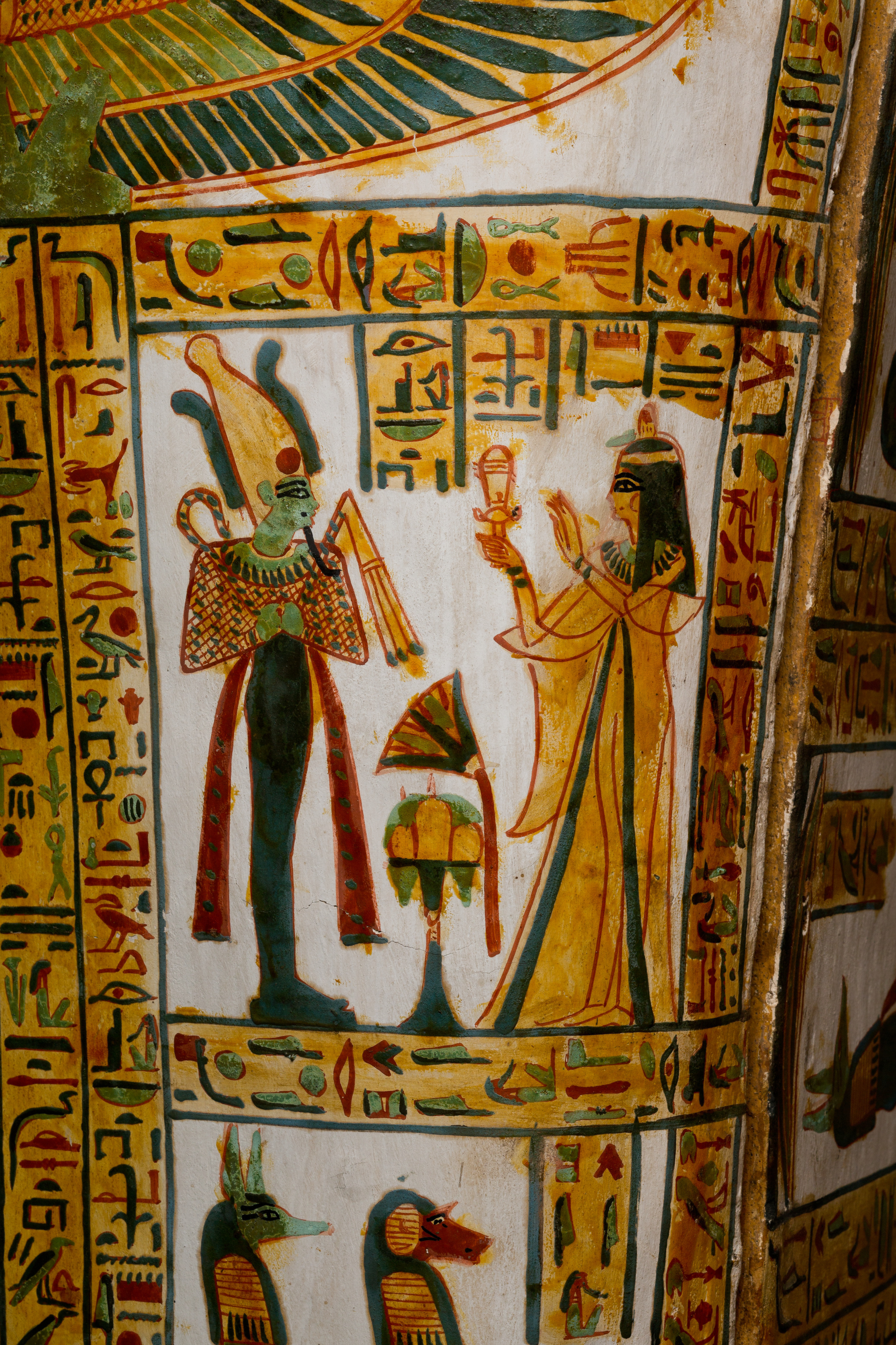 Outer coffin, Singer of Amun-Re, Henettawy F